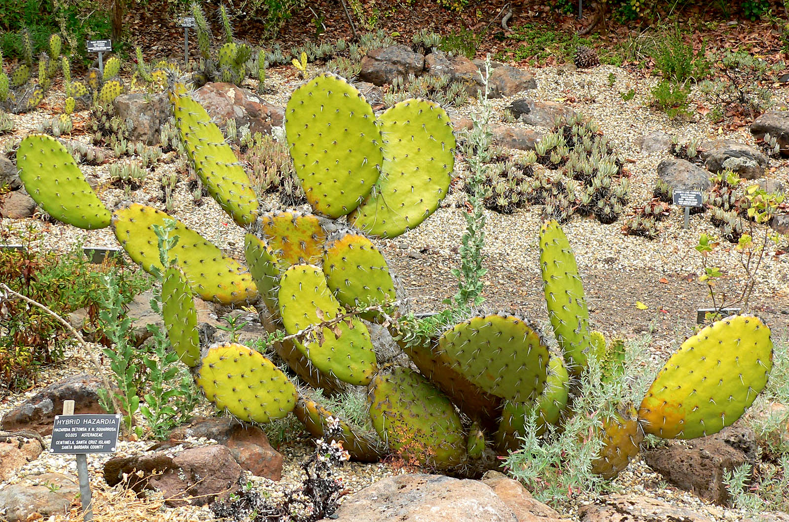 Photo of Opuntia oricola at the Regional Parks Botanic Garden